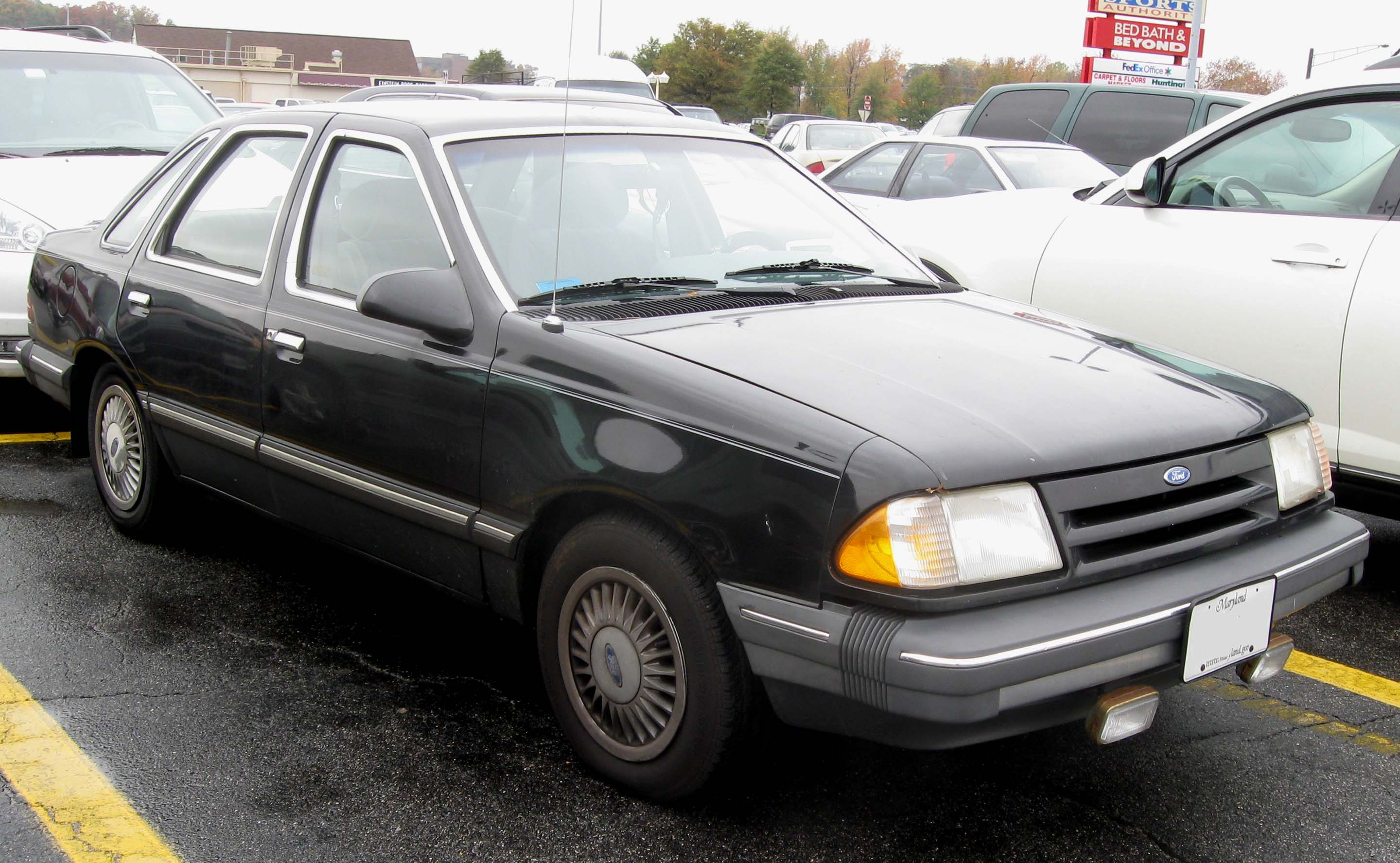 1986-1987 Ford Tempo photographed in Waldorf, Maryland, USA.